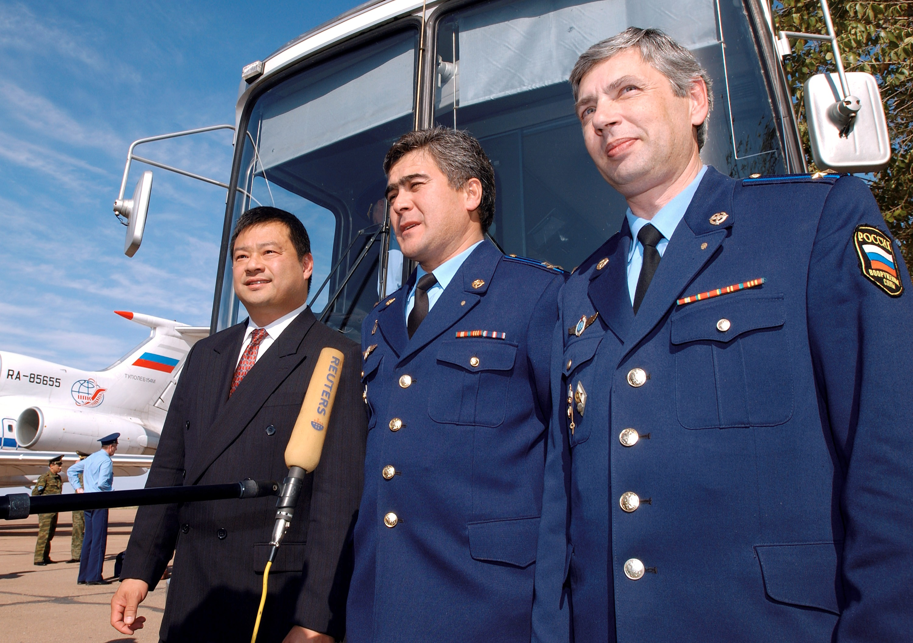 Astronaut Leroy Chiao (left), Expedition 10 commander and NASA International Space Station (ISS) science officer, cosmonaut Salizhan Sharipov (center), Russia's Federal Space Agency flight engineer and Soyuz commander, and Russian Space Forces cosmonaut Yuri Shargin (right) talk to the press in Baikonur, Kazakhstan, after their arrival from Star City, Russia. The crew will prepare for their launch on the Soyuz TMA-5 spacecraft October 14, 2004, to the ISS. Chiao and Sharipov will spend six months on the Station, while Shargin will return to Earth October 23 (U.S.A. time) with cosmonaut Gennady I. Padalka, Expedition 9 commander, and astronaut Edward M. (Mike) Fincke, NASA ISS science officer and flight engineer, who have been in space since April.